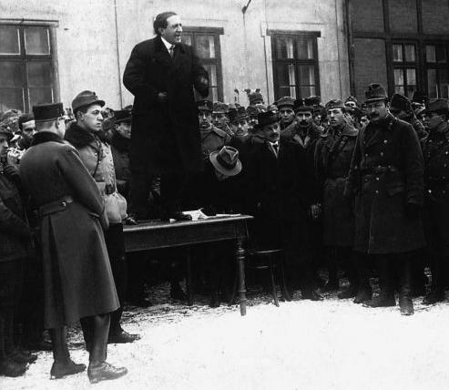 József Pogány aka John Pepper speaking in February 5, 1919 at Józsefváros Railway Station to the soldiers leaving the Ipoly defense line.